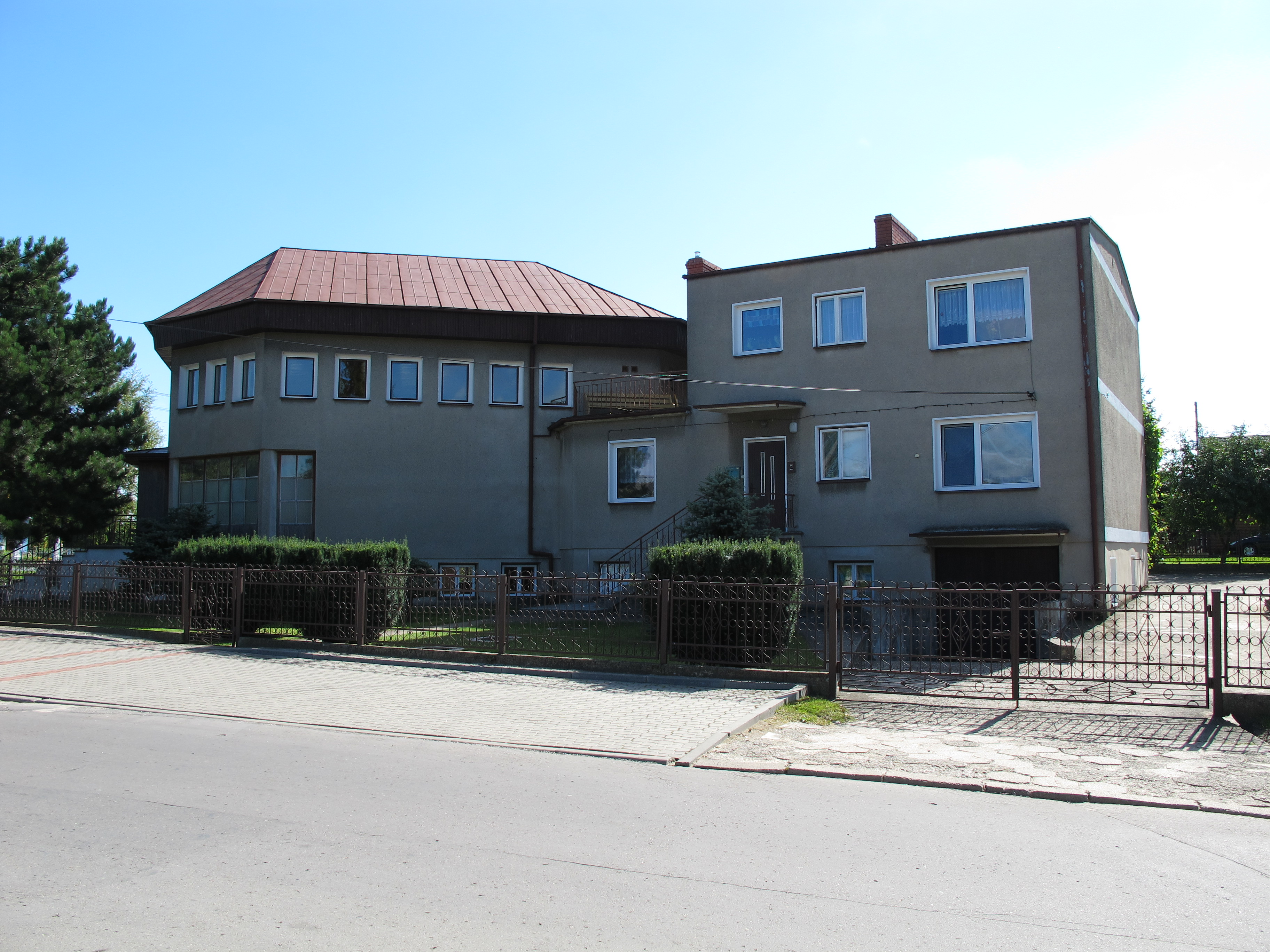 Baptist church by Kazimierzowska 40 street in Bielsk Podlaski, gmina Bielsk Podlaski, podlaskie, Poland.